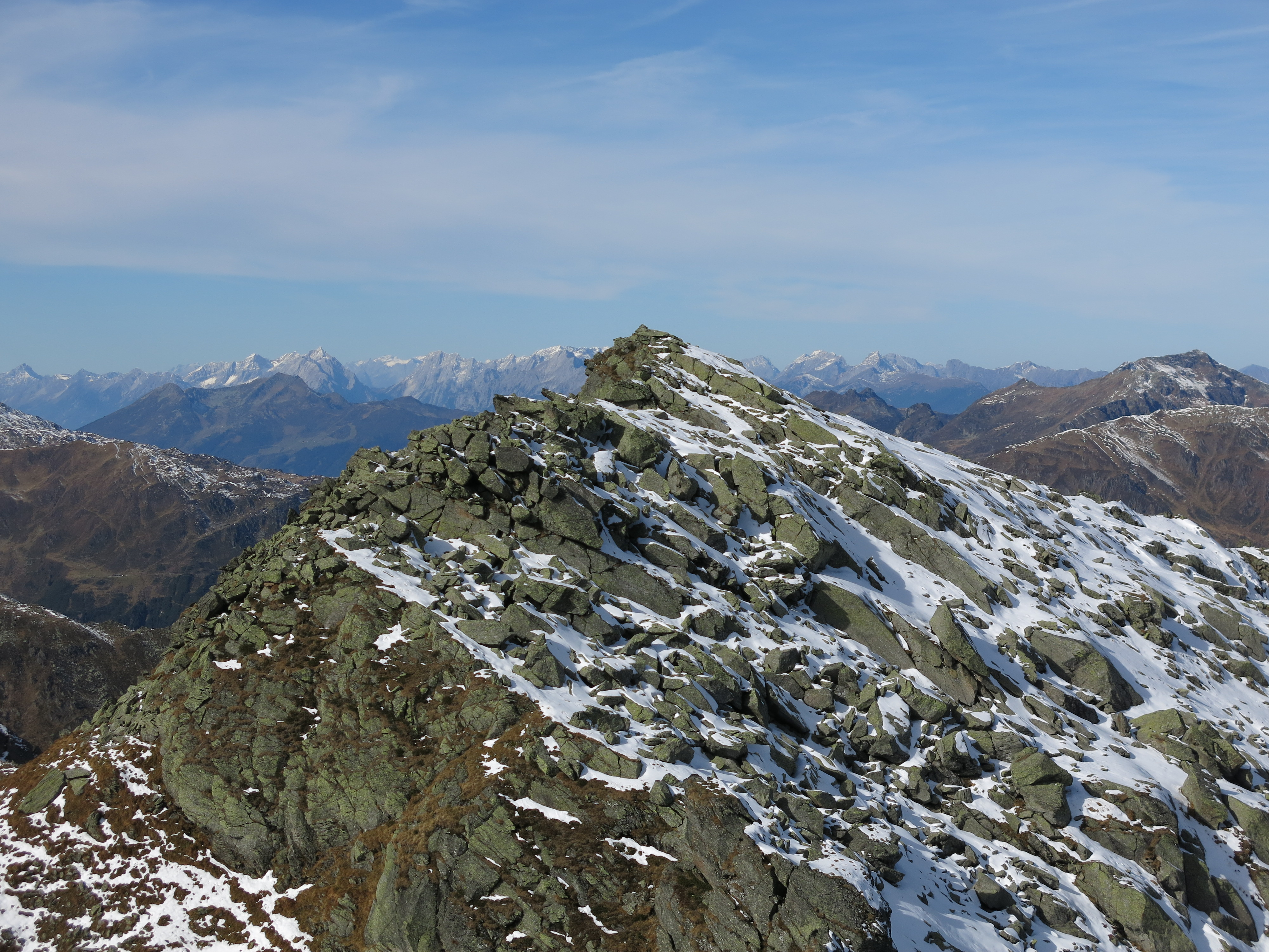 View from the eastern summit of Salzachgeier to the western summit. In the background the Karwendel range.